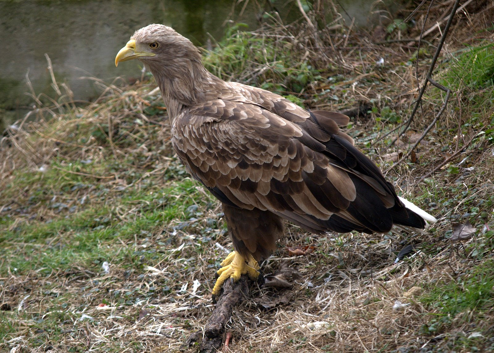 A White-tailed Eagle in captivity.